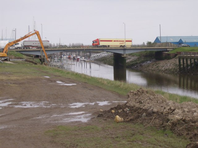 Fosdyke Bridge Fosdyke Bridge carries the A17 over the River Welland. Now a very busy route from Norfolk to the Midlands and North, whilst the river has very few boats. When the first bridge was built, about 200 years ago, this would have been a very different scene.